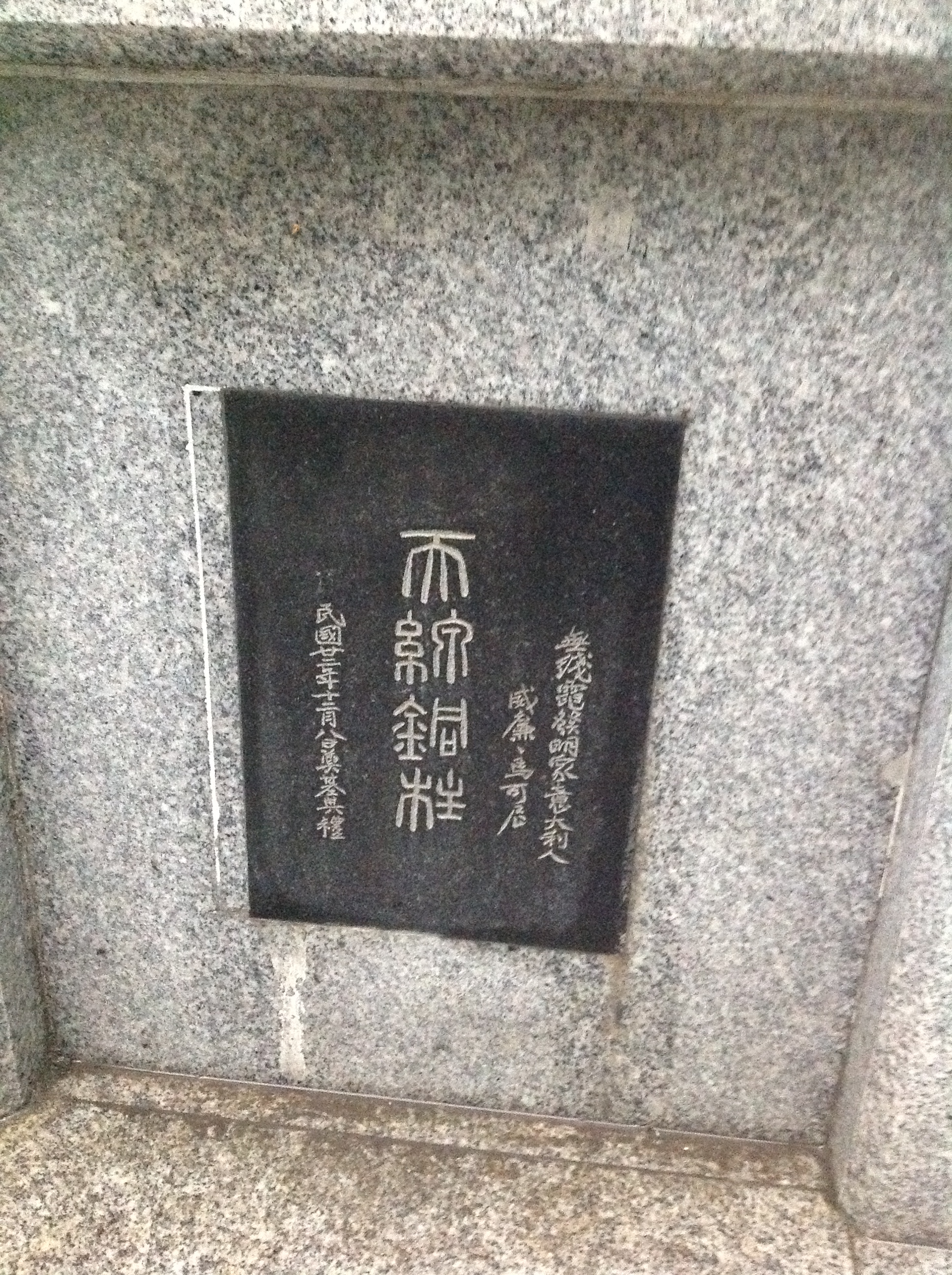 Marconi antenna in SJTU Base.